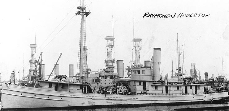 USS Raymond J. Anderton (SP-530) Photographed circa August 1917, while preparing for deployment overseas. Location is probably Boston Navy Yard. Two battleships are in the background, with that in the center being either USS Delaware (Battleship # 28) or USS North Dakota (Battleship # 29). Built in 1911, the fishing vessel Raymond J. Anderton was acquired by the Navy on 15 June 1917 and commissioned on 18 August 1917. She was decommissioned on 8 September 1919 for sale abroad.